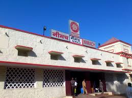 This is an image of railway station of Nimuch. The pictures shows the front building.jpg